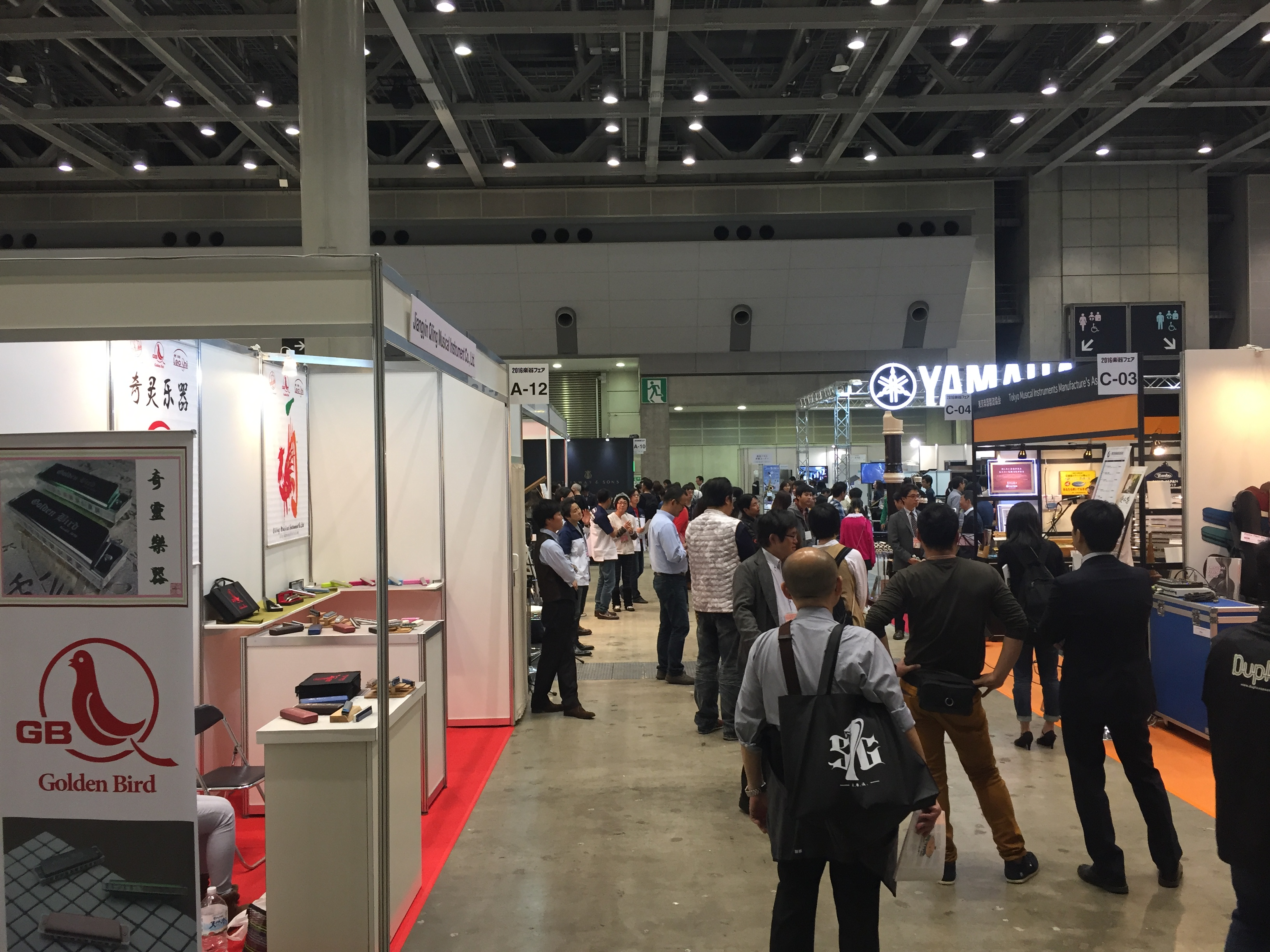 Musical Instruments Fair Japan 2016